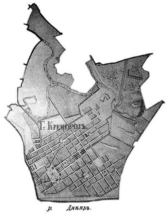 Old map of Kremenchuk